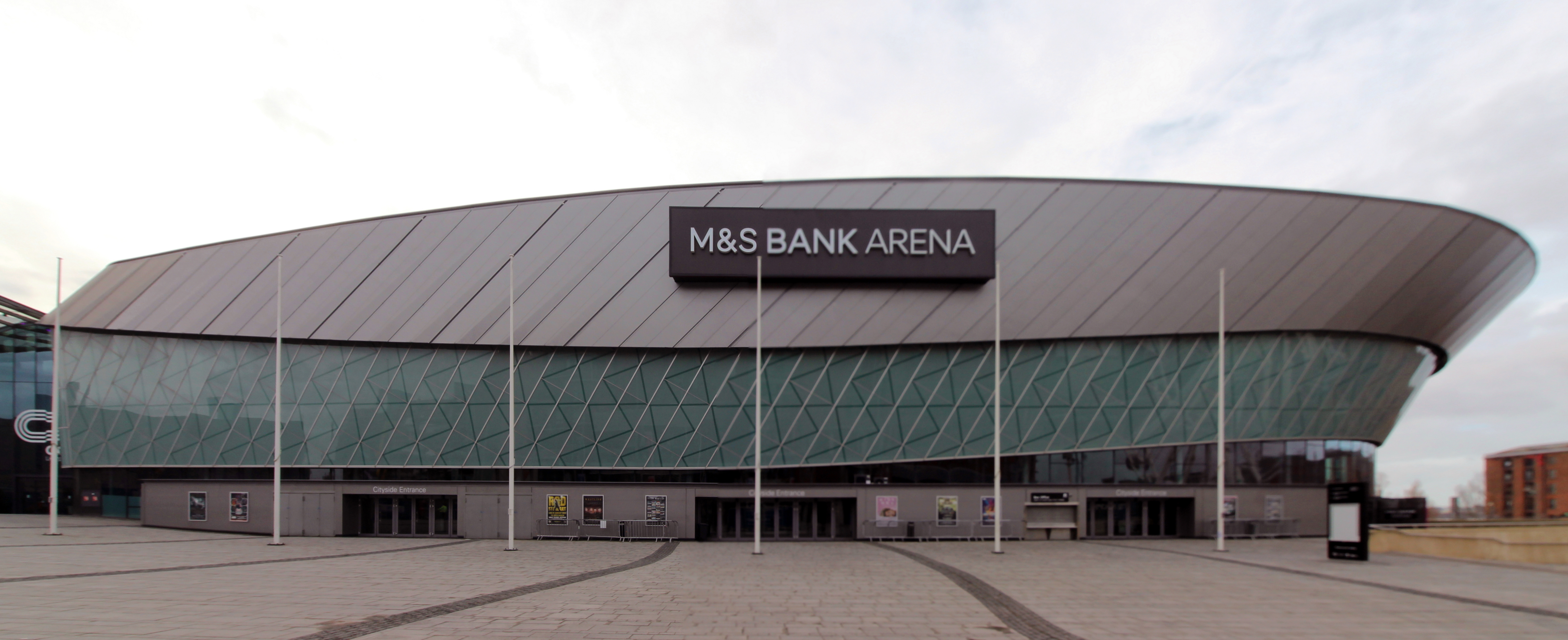 The frontage on the ACC plaza, with new branding applied.